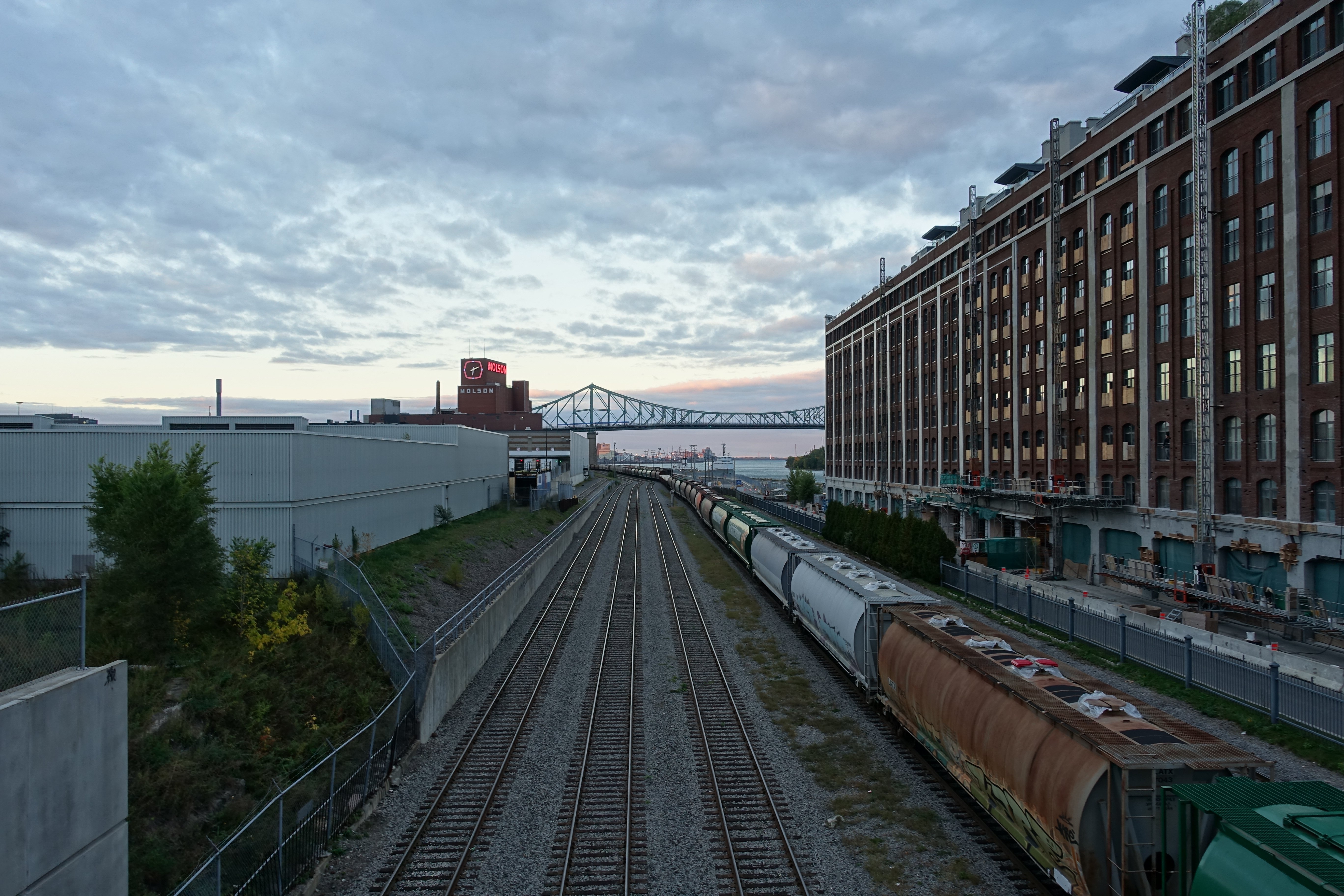 Old Port @ Montreal